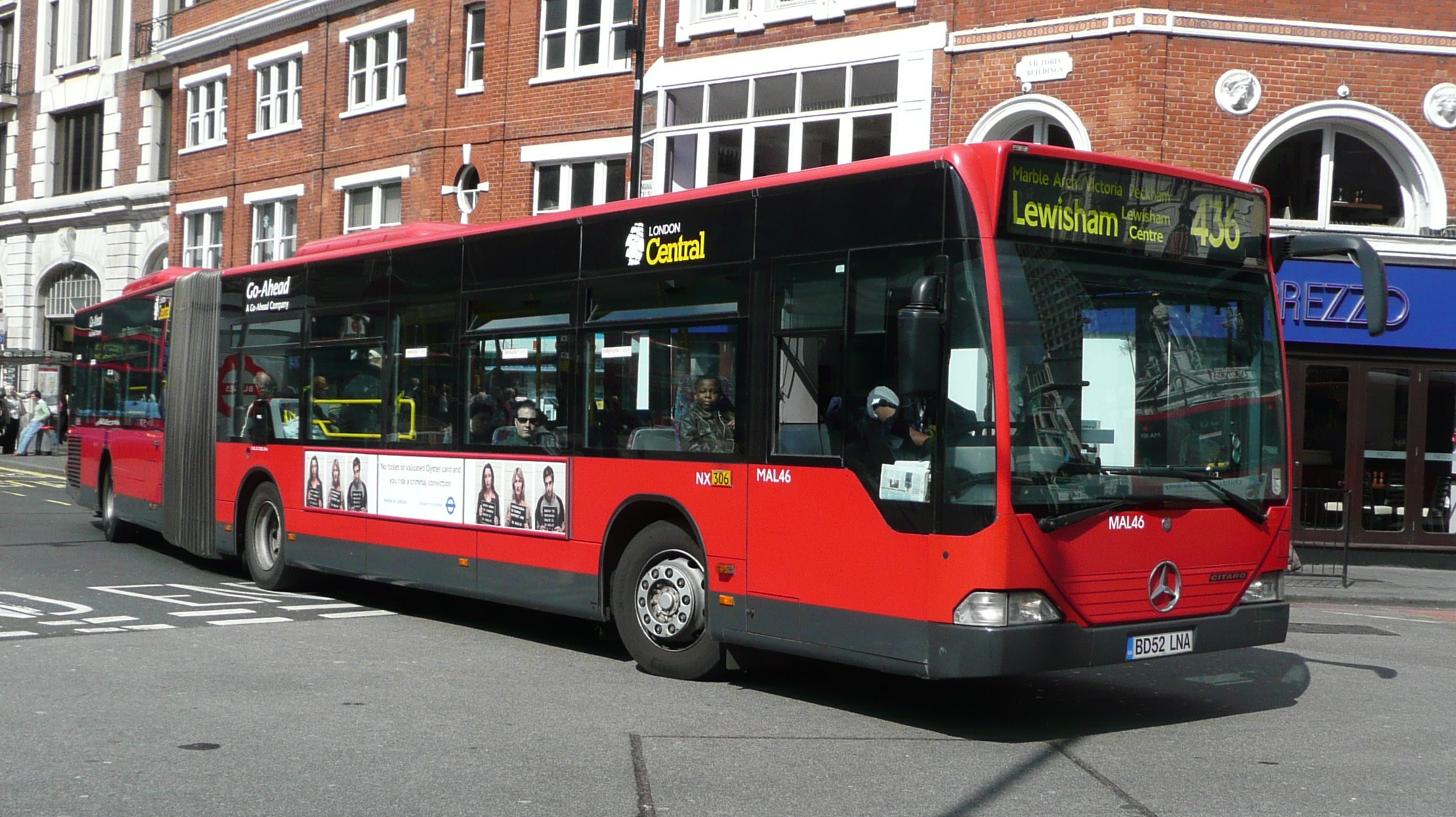 A London Central Citaro on route 436